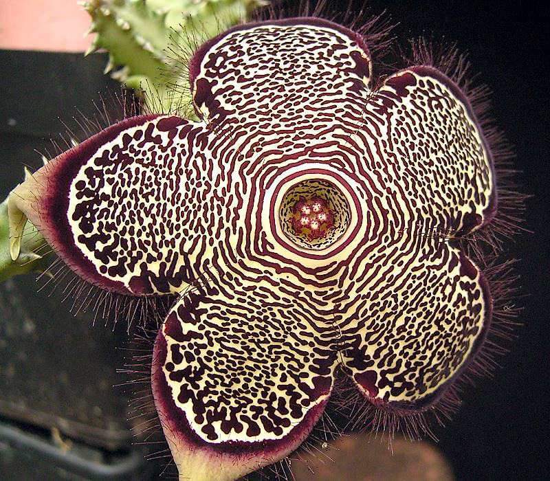 Edithcolea grandis var. baylissiana